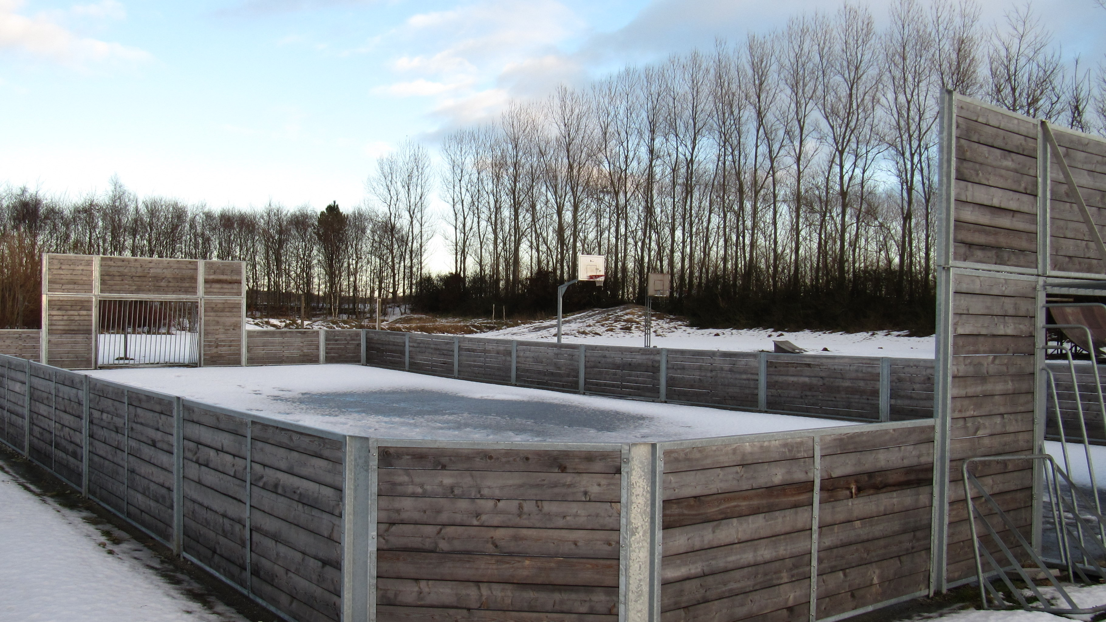 Vester Hassing Multibane